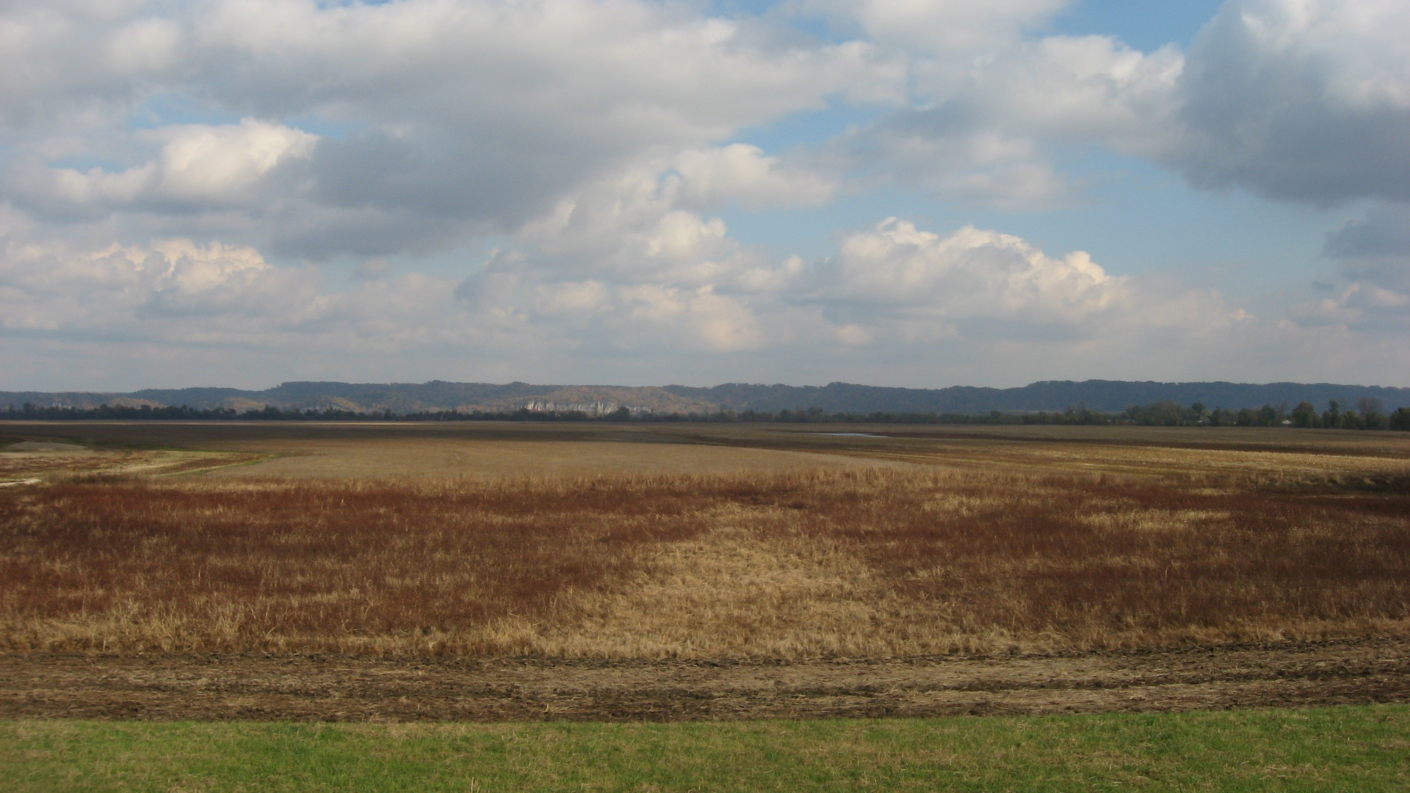 Looking eastward over the southern portion of Grand Tower Island from the levee road in the island's west. The island is part of Perry County, Missouri, United States, although the land in the distance is part of Jackson County, Illinois.